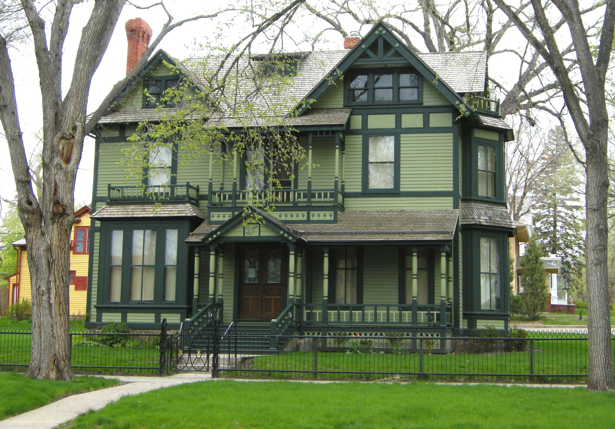 Former Governors' Residence, Bismarck, North Dakota, USA. Site is now a museum, and is on the National Register of Historic Places.